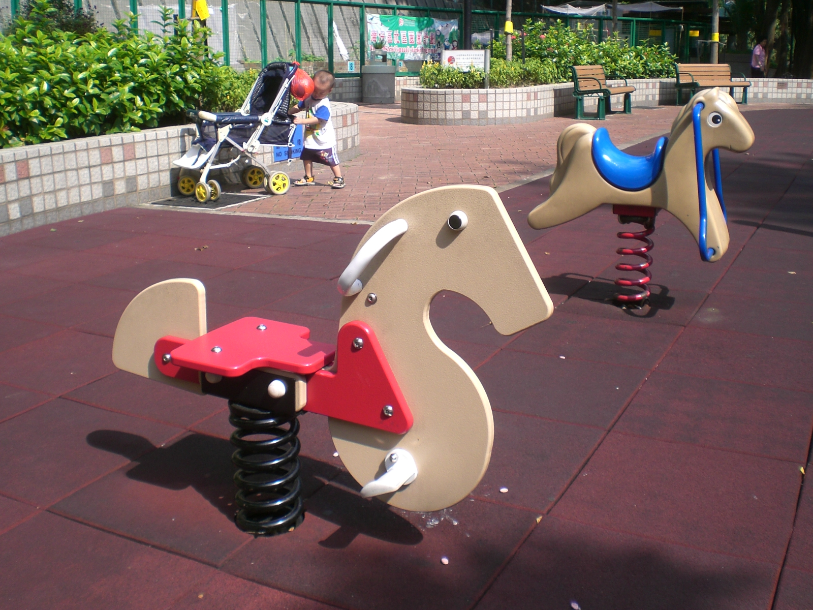 灣仔公園